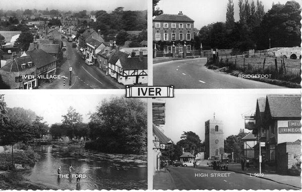 scan of a postcard from the 1950's